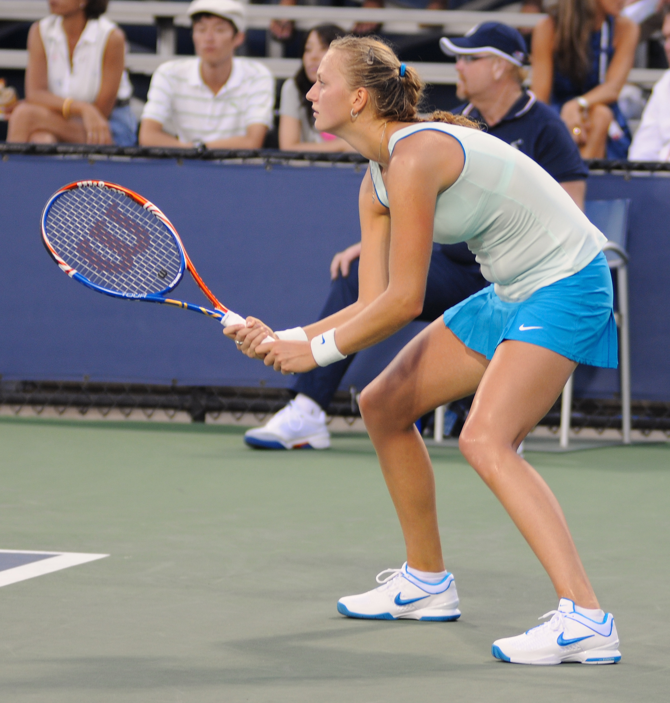 Petra Kvitova - US Open 2010